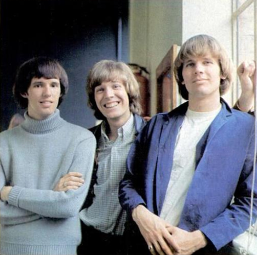 Trade ad for The Walker Brothers.To better adapt it to his respective Wikipedia article, the ad was cropped and cleaned in a graphics editing program. The original can be viewed at the source below.